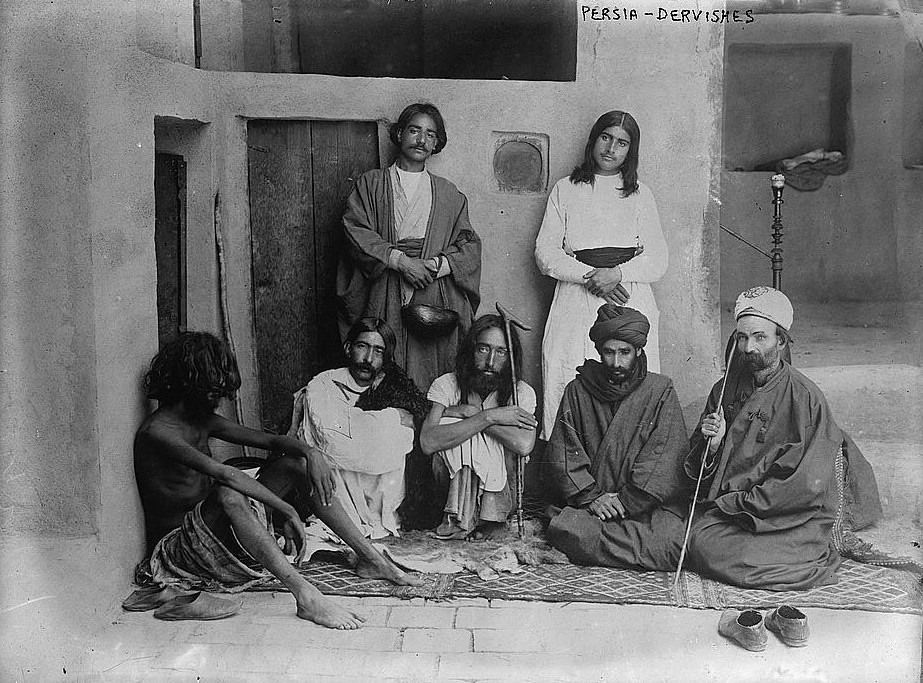 Persia - Dervishes, Mollahs and Sards